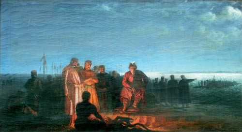 Mazeppa on crossing the Dnieper.label QS:Len,"Mazeppa on crossing the Dnieper." label QS:Luk,"Мазепа на переправі через Дніпро."